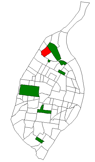 Map of St. Louis Neighborhood #72 (Walnut Park East)